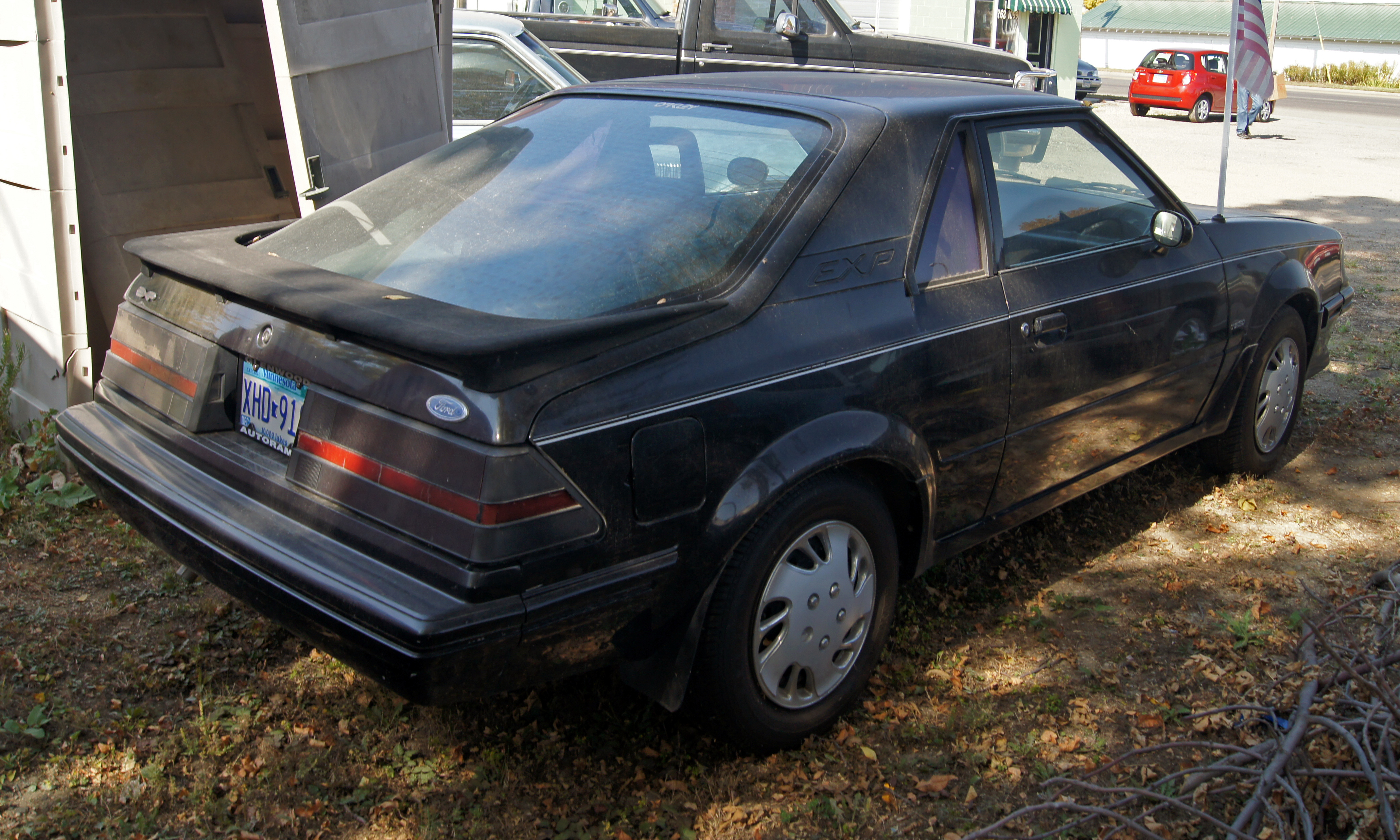 I was driving through downtown Glenwood, when I spotted this in the backrow of a car dealership. The dealer came out and explained that it no longer has the turbo engine. It has a newer 1.9 liter. It was dirty, but in pretty good shape just a chip in the paint on the hood and a medium tear in the drivers seat. If I did not already have my Sebring Coupe I would have been very interested. If it had been an LN7 I may not have been able to resist. I had almost forgotten about the 2 seater Escort and Lynx. Too bad about the Kmart hubcaps.